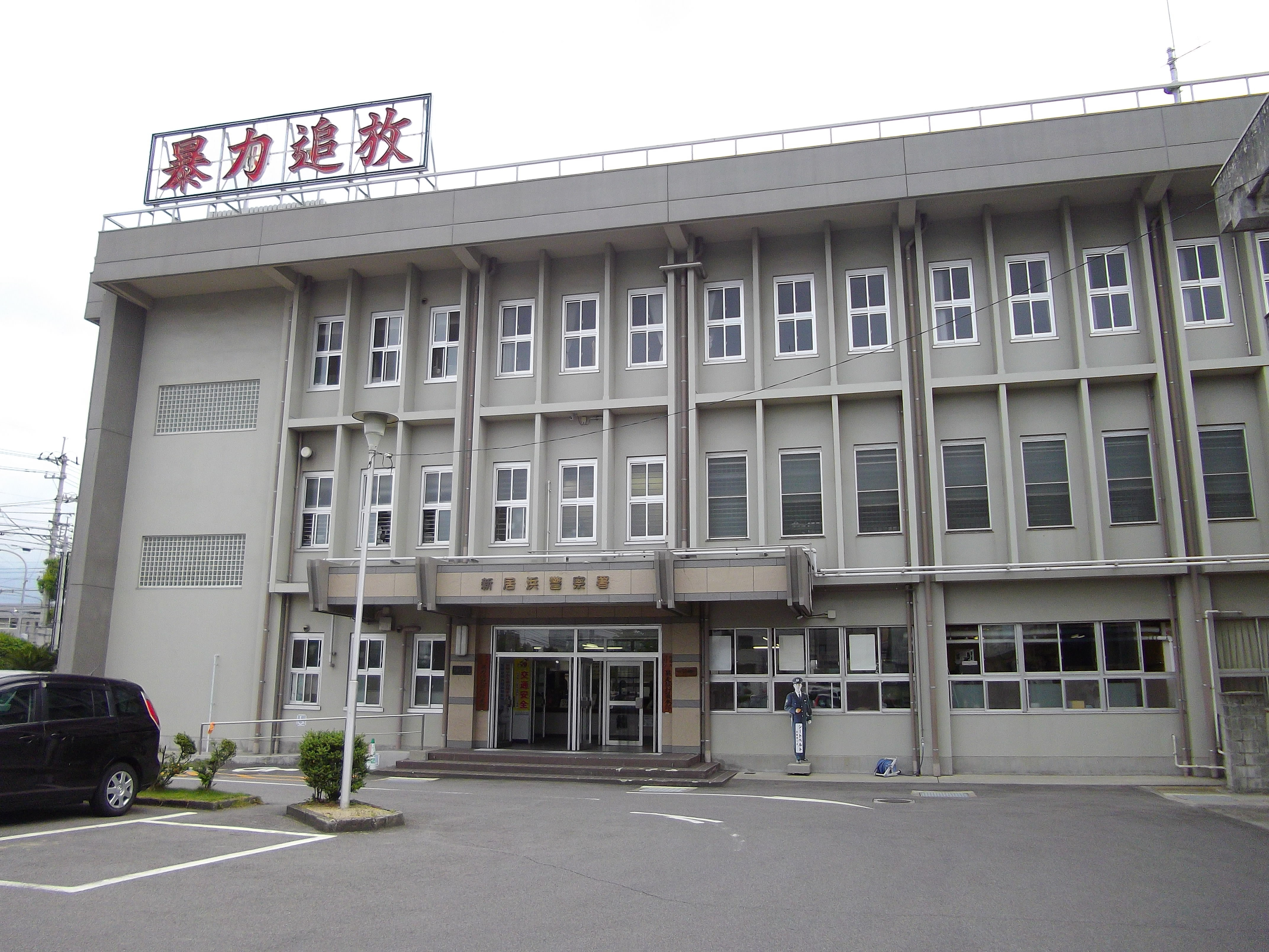 Niihama Police Station in Niihama city, Ehime prefecture, Japan.